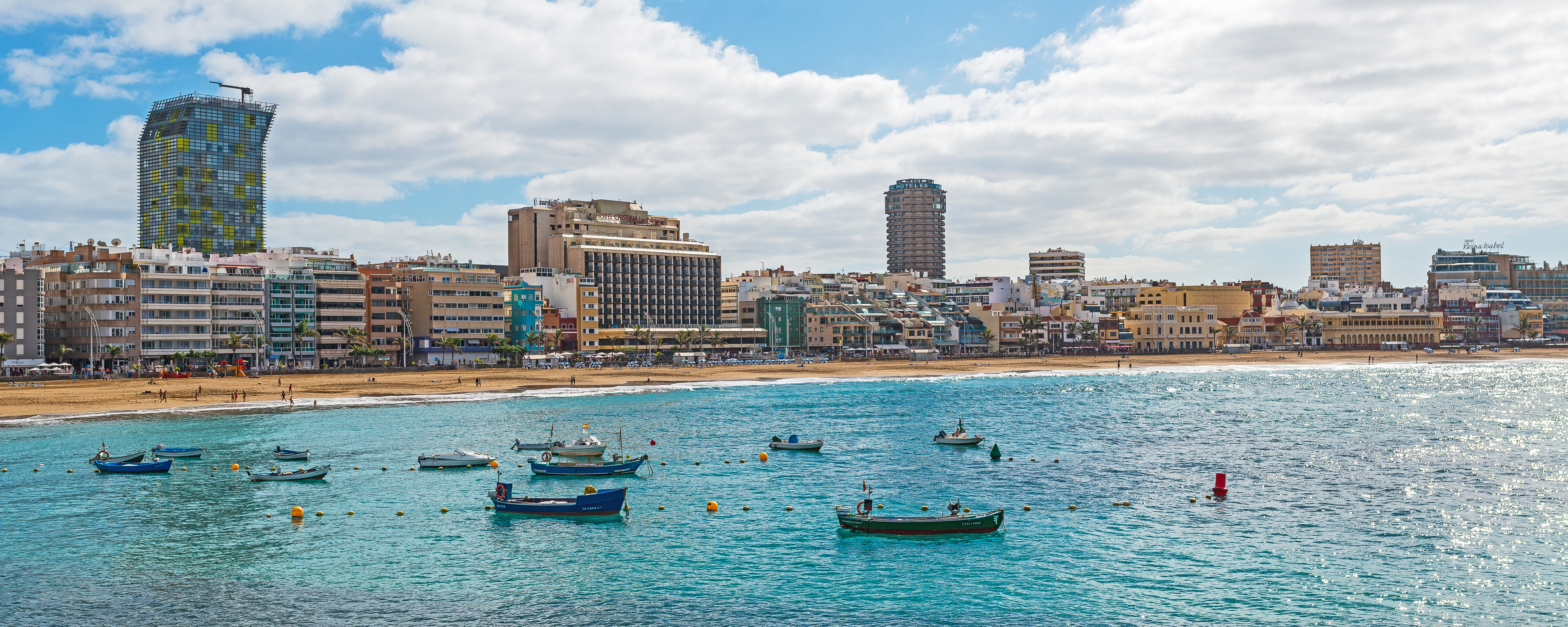 Playa de las Canteras Las Palmas January 2016